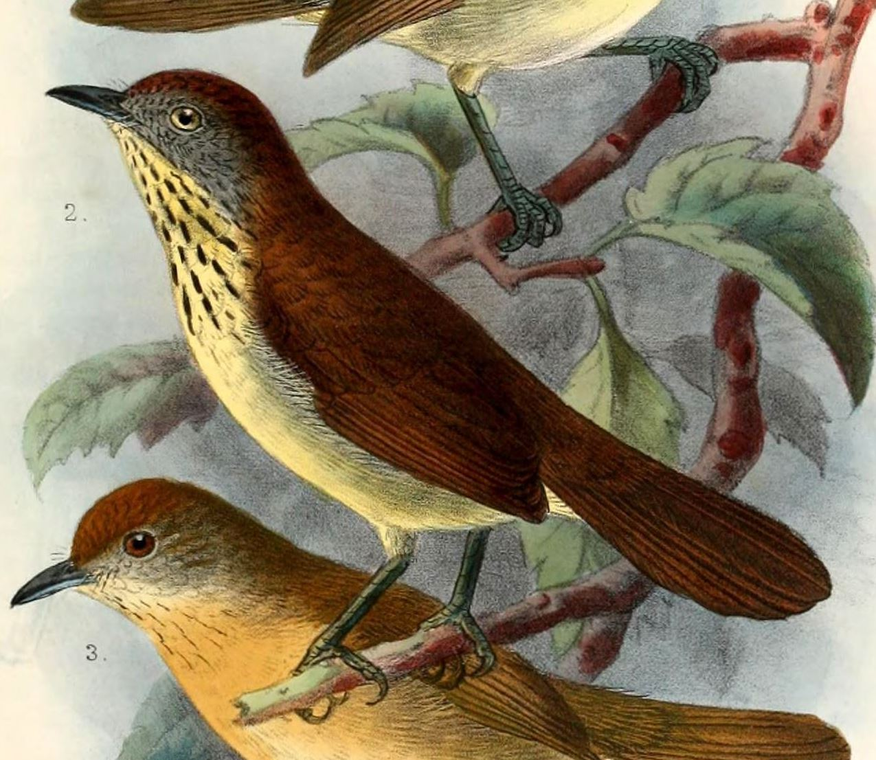 « Mixornis everetti » = Macronus bornensis everetti (Subspecies of Bold-striped tit-babbler)